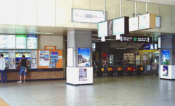 This photo is the entrance of Okubo station ,Kinki-Nippon Rail Road (KINTETSU), Uji City, Kyoto Pref. This station has this entrance only. For pedestrian, there is no barrier for east side and west side, we can walk to both side.